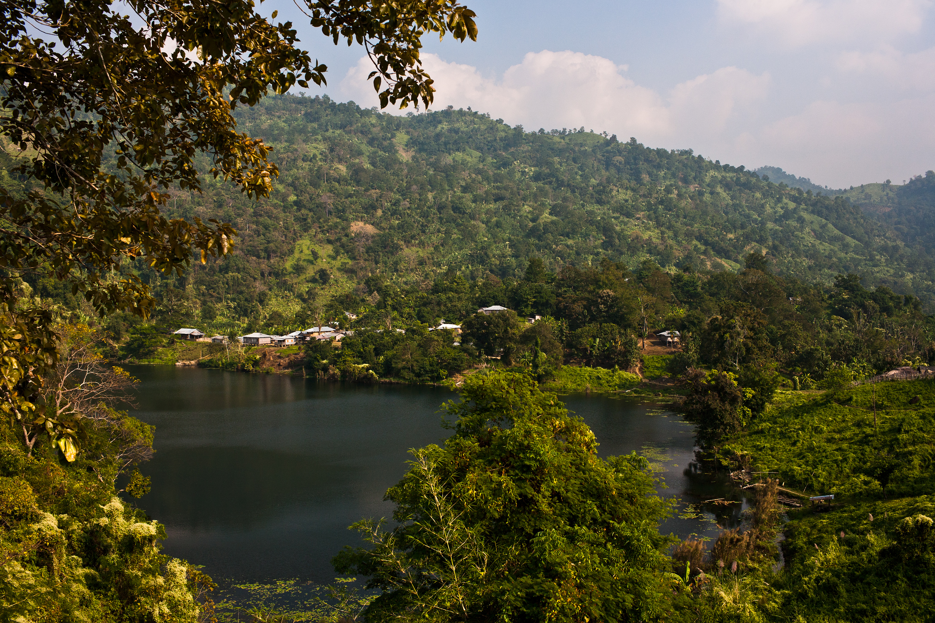 Boga lake